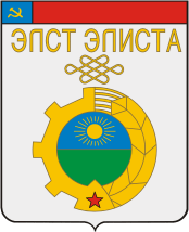 Elista (Kalmykia), coat of arms (1980s)